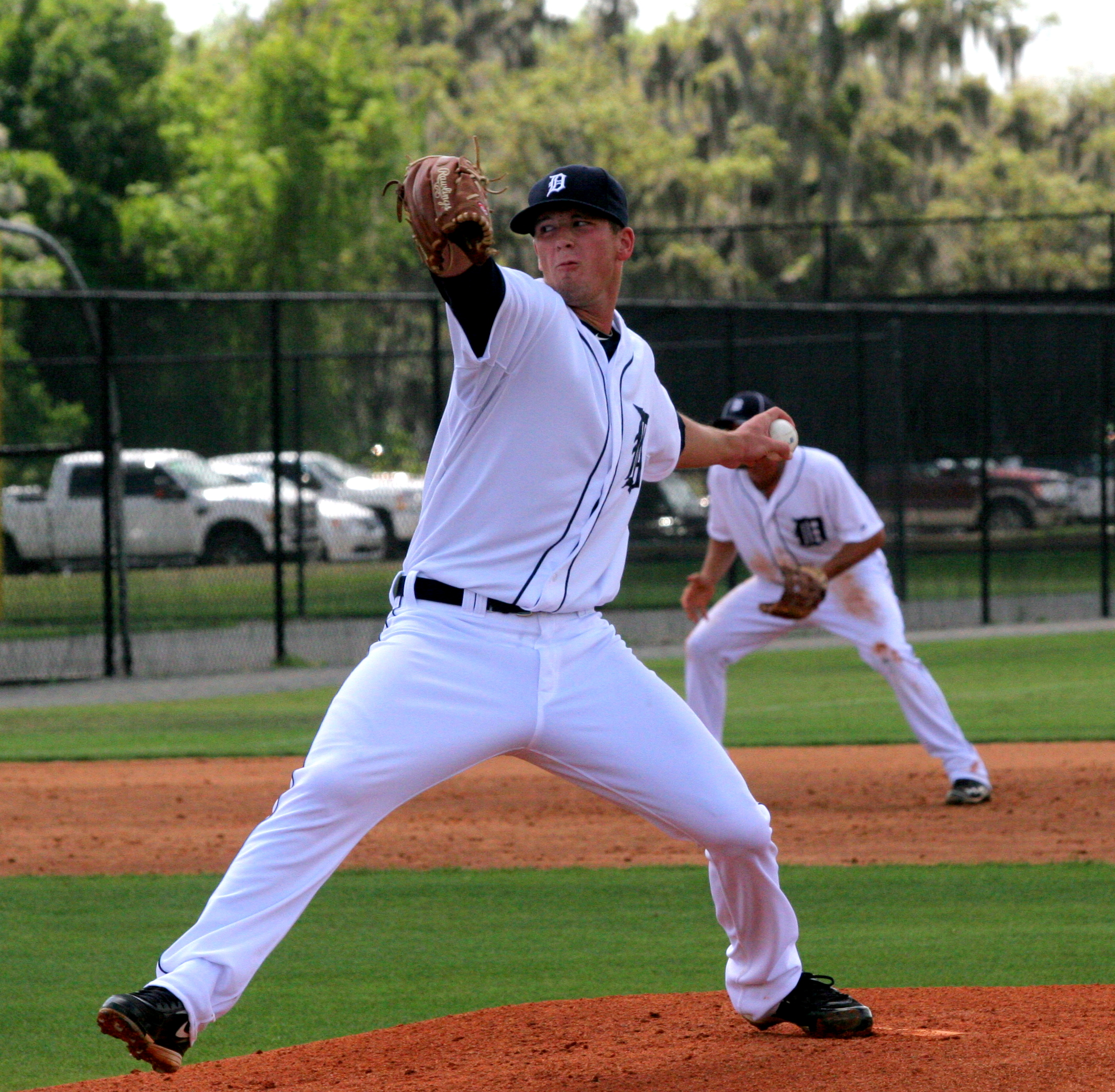 Drew Smyly pitching for the Detroit Tigers in spring training on March 22, 2012